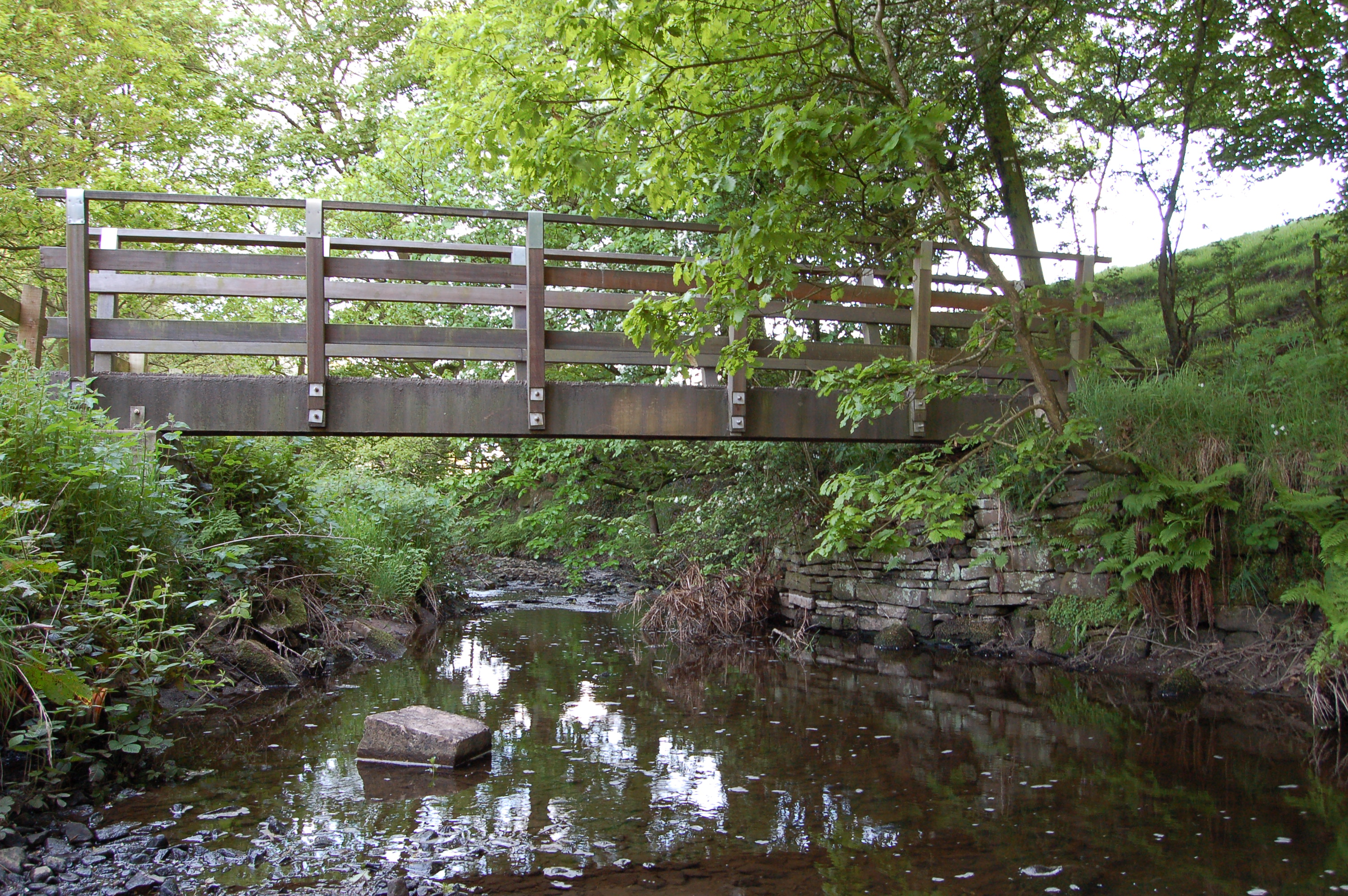 By me, released